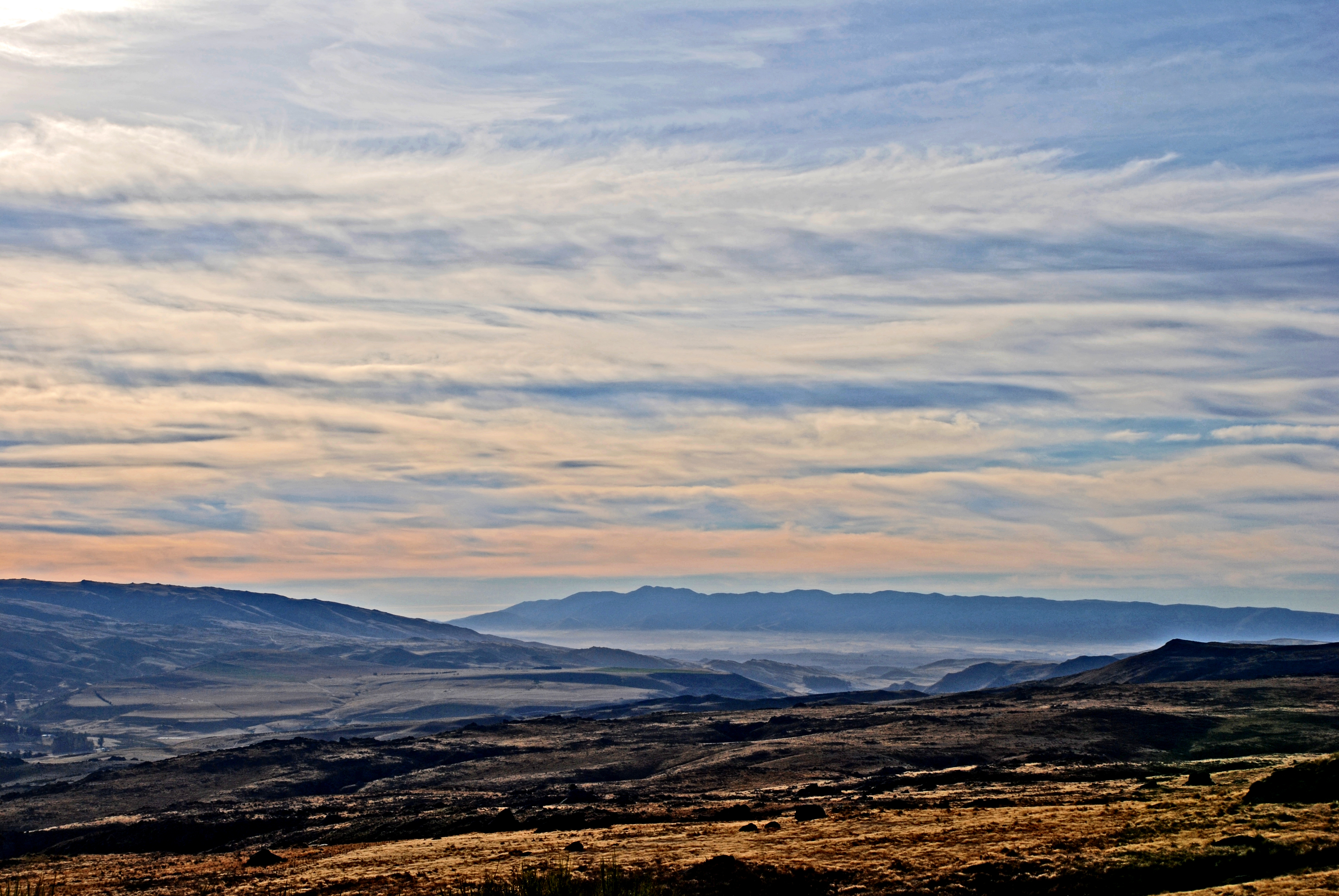 North from Macrae's Road, Otago, New Zealand, May 2007